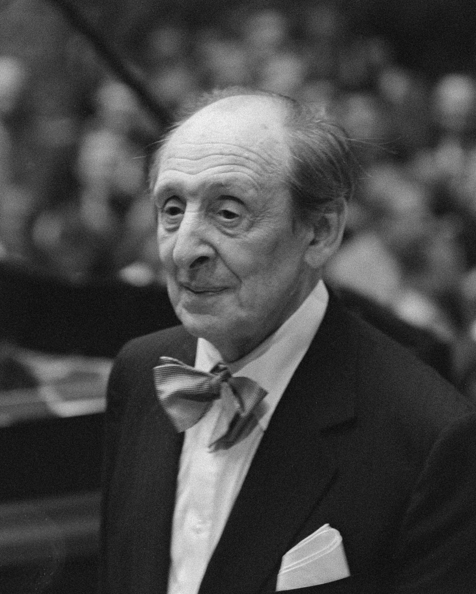 Concert pianist Vladimir Horowitz in Amsterdam, 1986